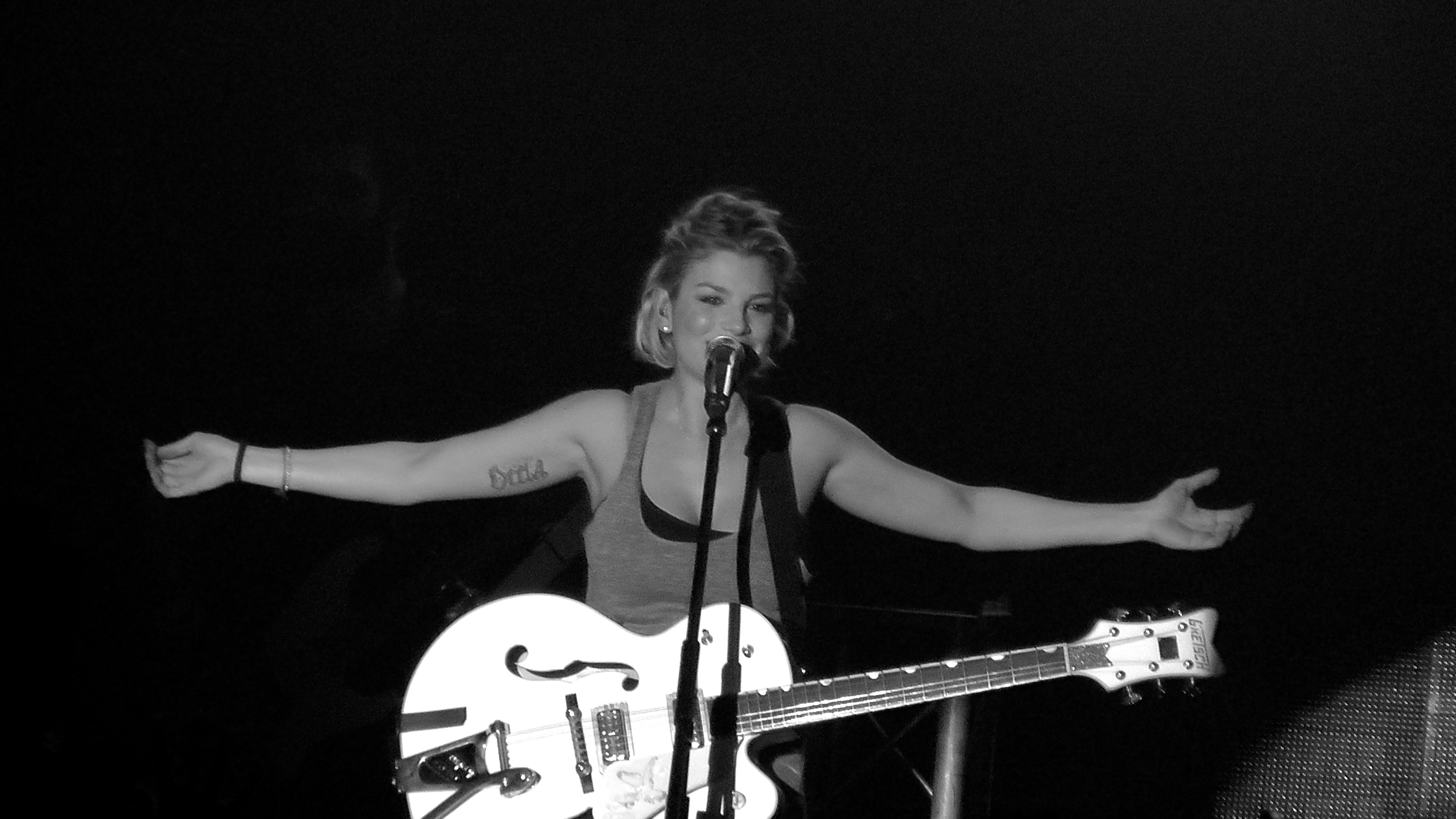 Picture taken at the Teatro Obihall of Florence in November 2012 with a Panasonic Camcorder HC-V700